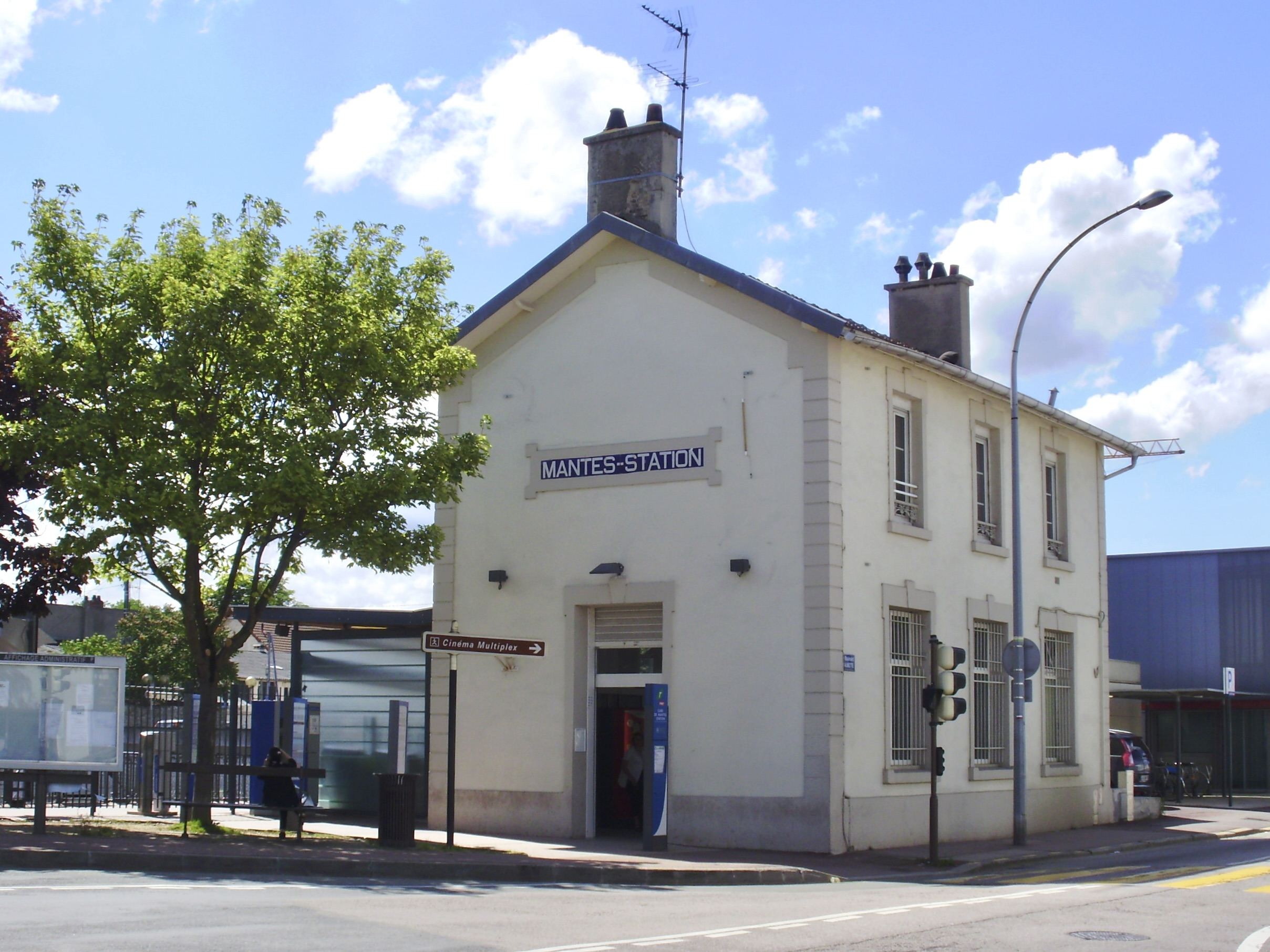 Mantes-Station station, Yvelines, France (entrance Boulevard Calmette in Mantes-la-Jolie)